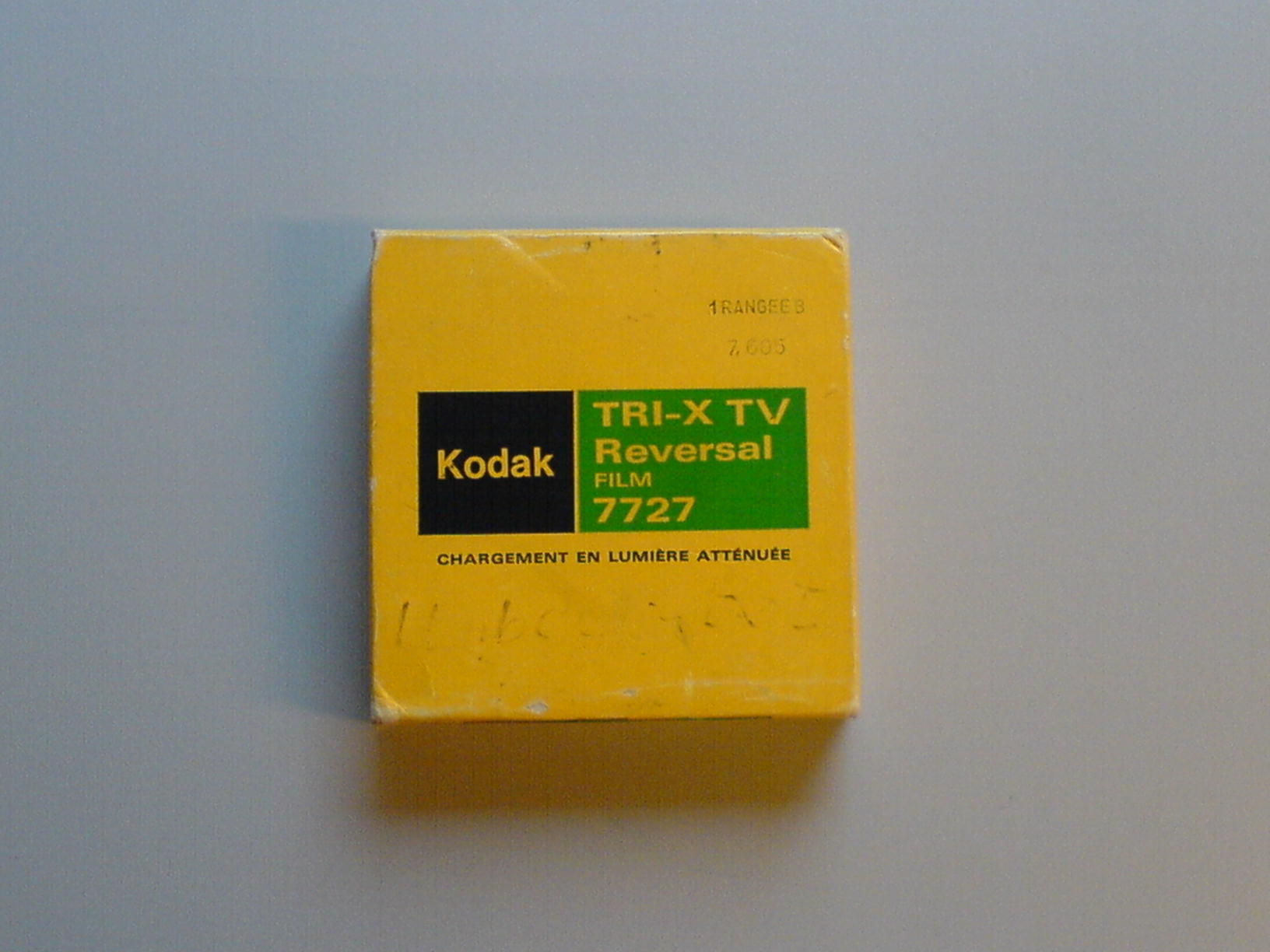 Author: self Source: my own picture